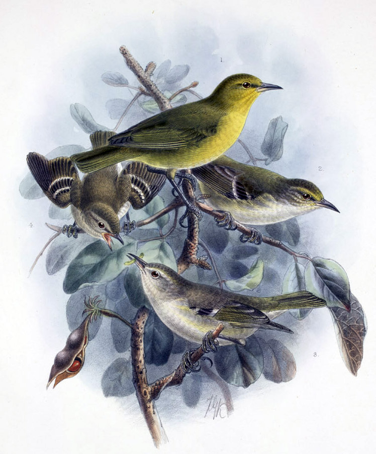 Illustration showing Oreomyza maculata which is now a synonym of the Oʻahu ʻAlauahio (Paroreomyza maculata) from Avifauna of Laysan by Lionel Walter Rothschild, 2nd Baron Rothschild (8 February 1868 – 27 August 1937) by John Gerrard Keulemans (1842-1912) (Dutch bird illustrator), which was issued from 1893--1900.